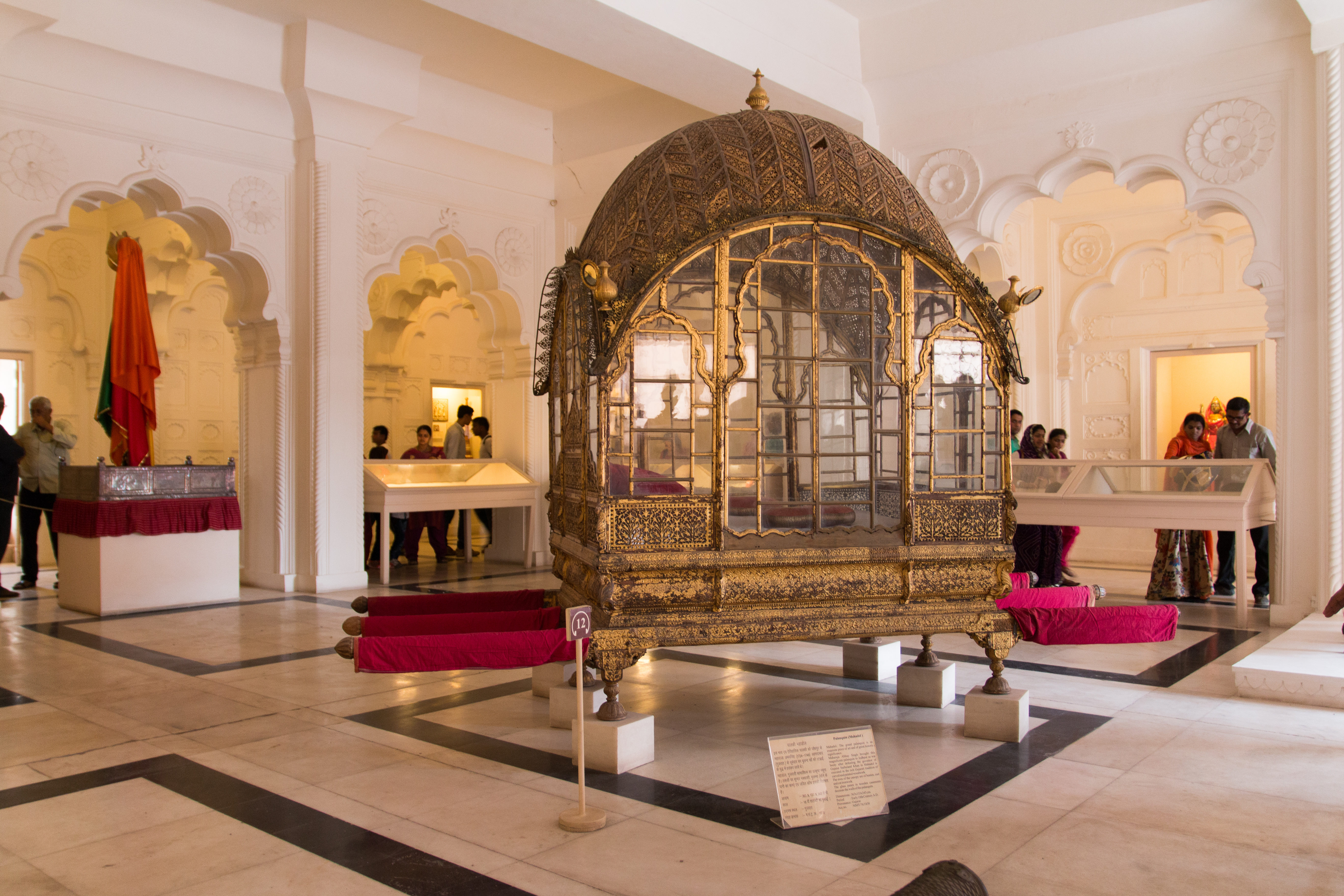 Royal palanquin used for the wedding ceremonies of Maharajas.